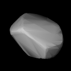 3D convex shape model of 1663 van den Bos, computed using light curve inversion techniques. J. Hanuš, J. Ďurech, M. Brož, B. D. Warner (June 2011). "A study of asteroid pole-latitude distribution based on an extended set of shape models derived by the lightcurve inversion method". Astronomy and Astrophysics 530: A134. ISSN 0004-6361. arXiv